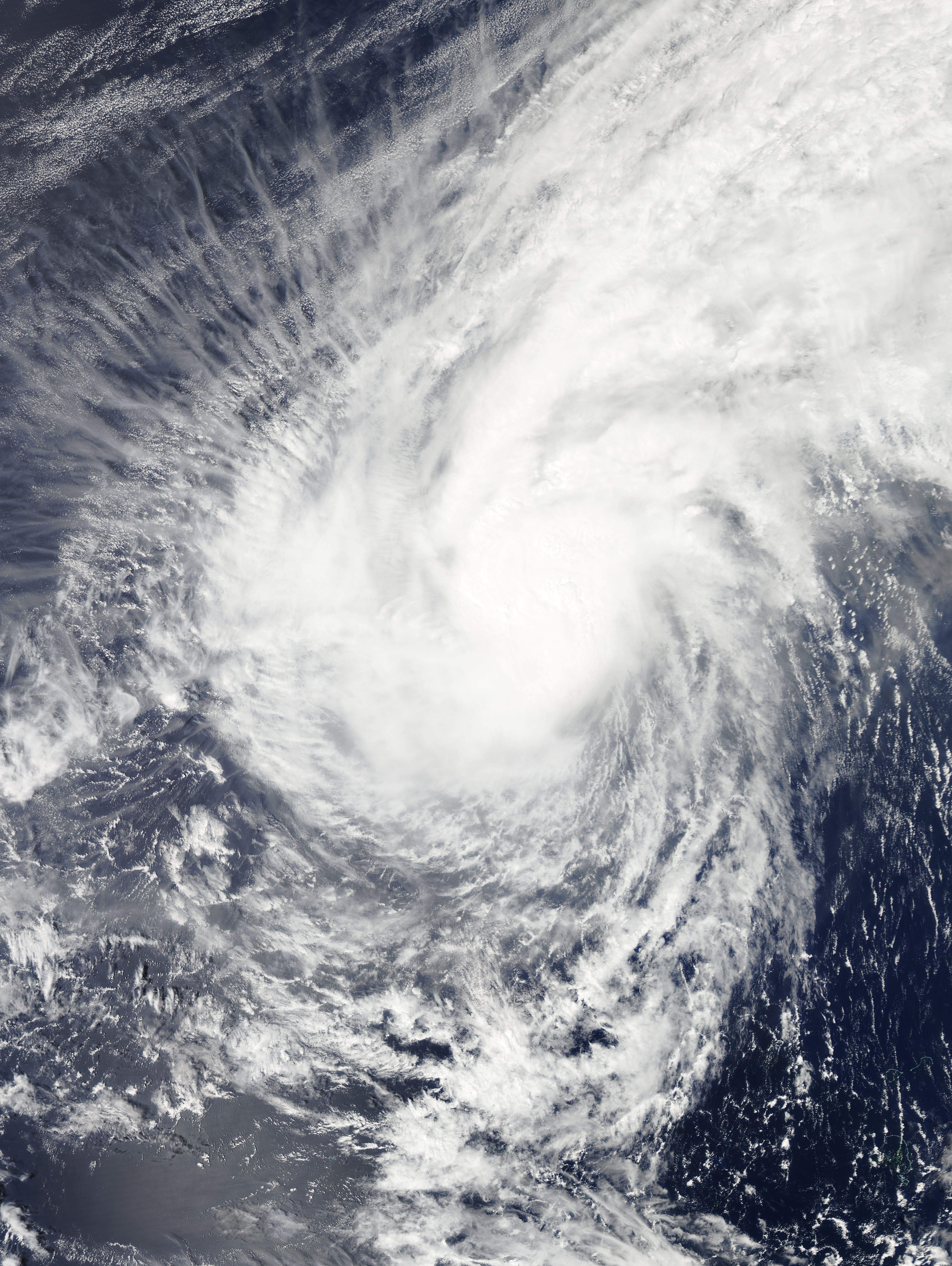 Tropical Storm Bavi (03W) on March 15, 2015.